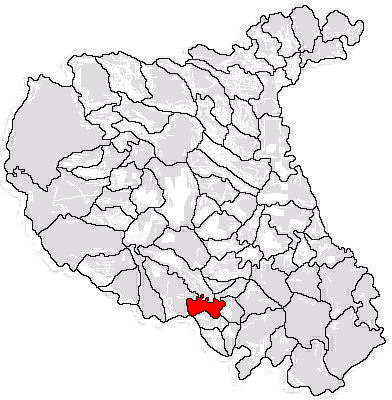 Limits of the Commune of Bordeşti